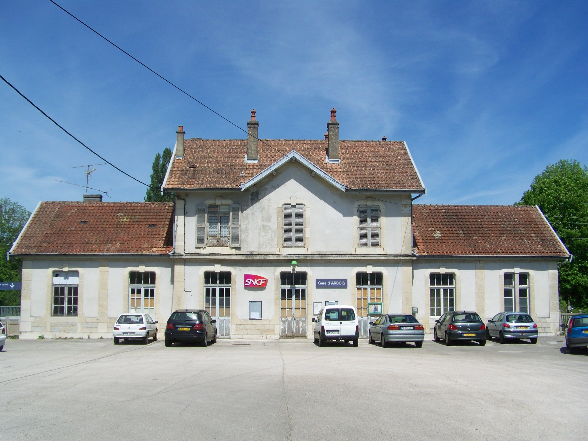 Front of city of Arbois railway station, in Jura, France.